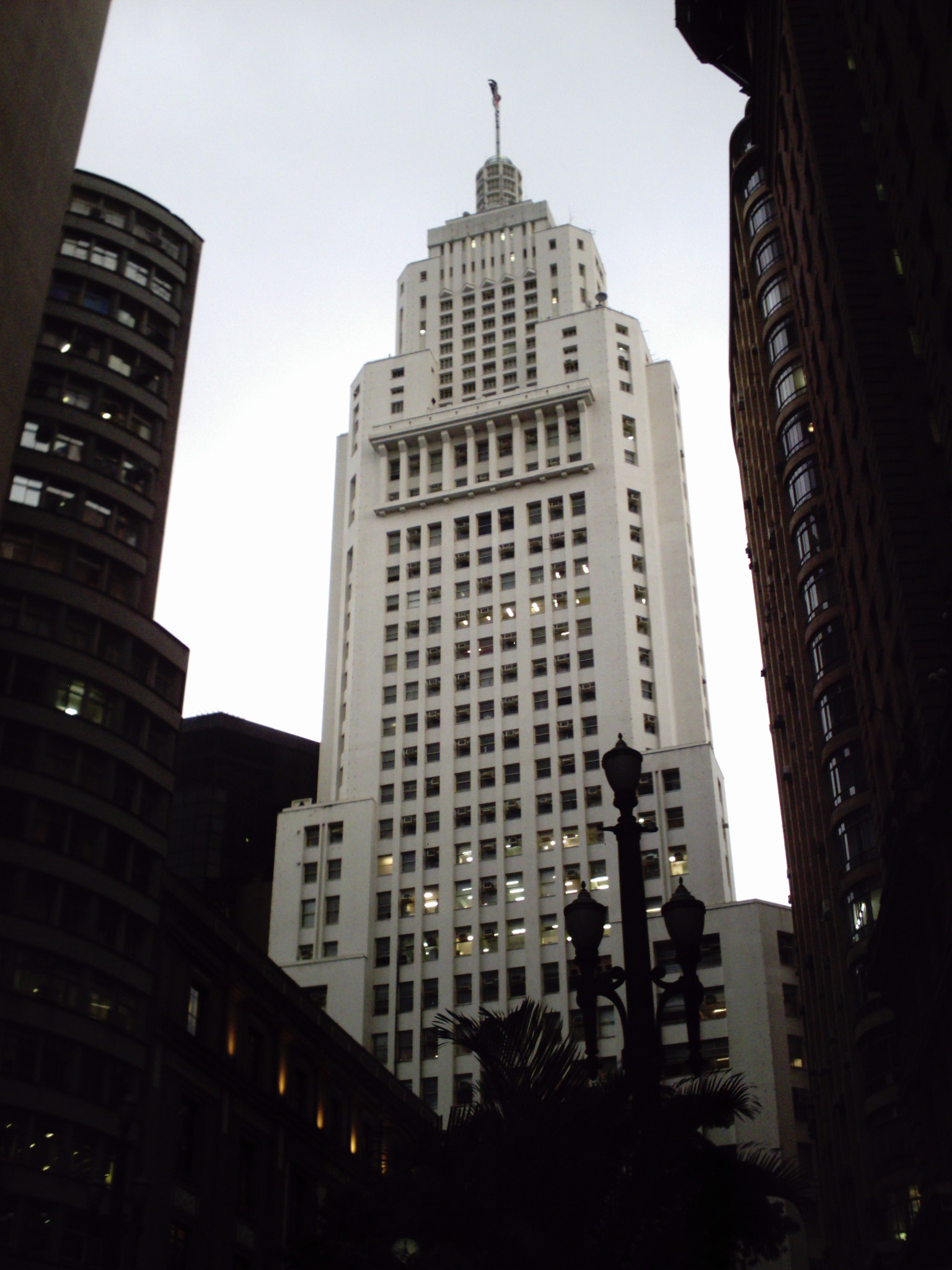 Banespa Building in São Paulo City,Brazil